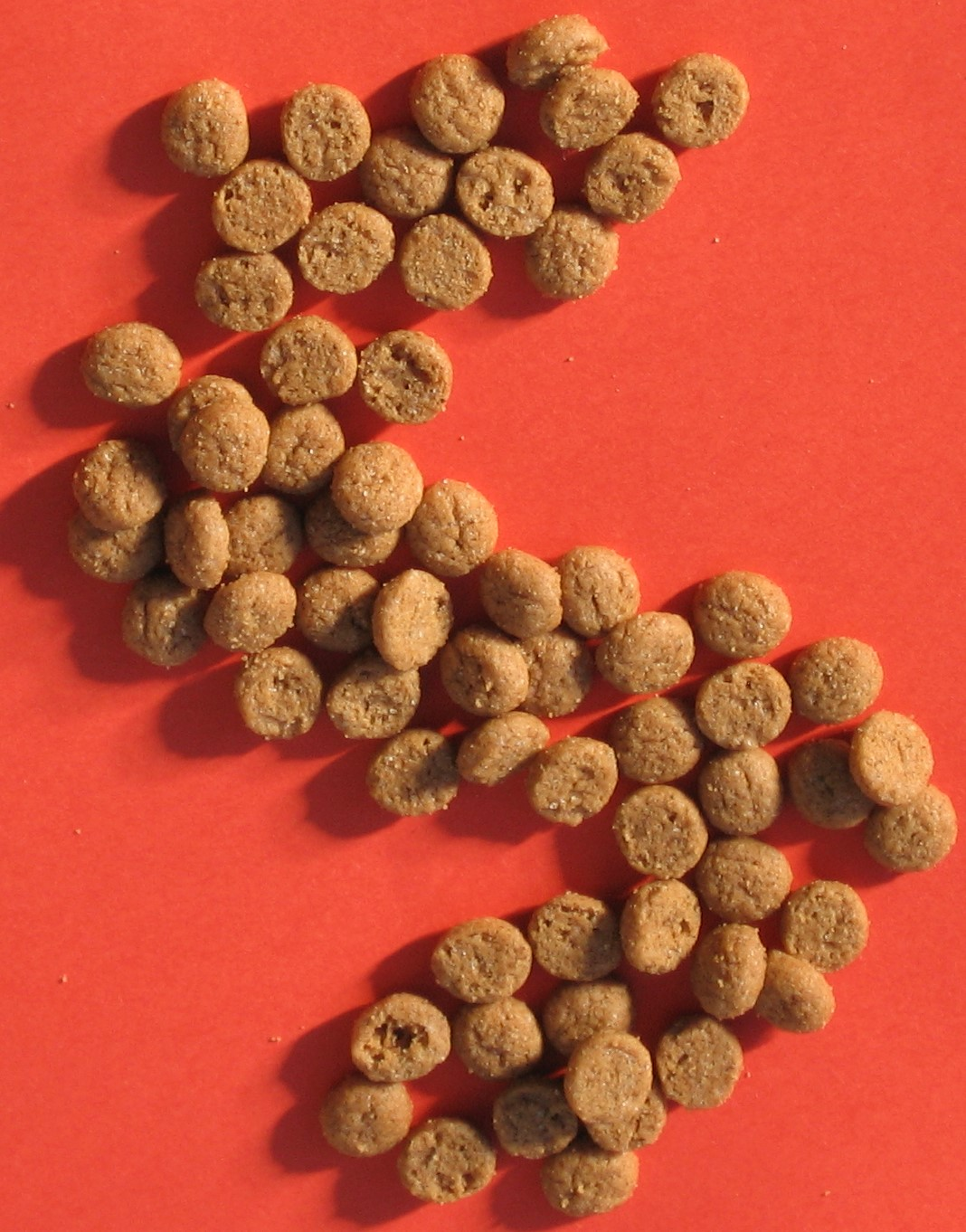 Schuddebuikjes: a spread of speculaas, 2019